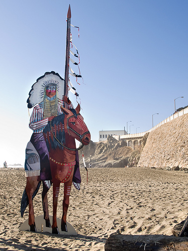 Artist Thom Ross re-created a 1902 photo of Buffalo Bill Cody's Wild West Show Licensing